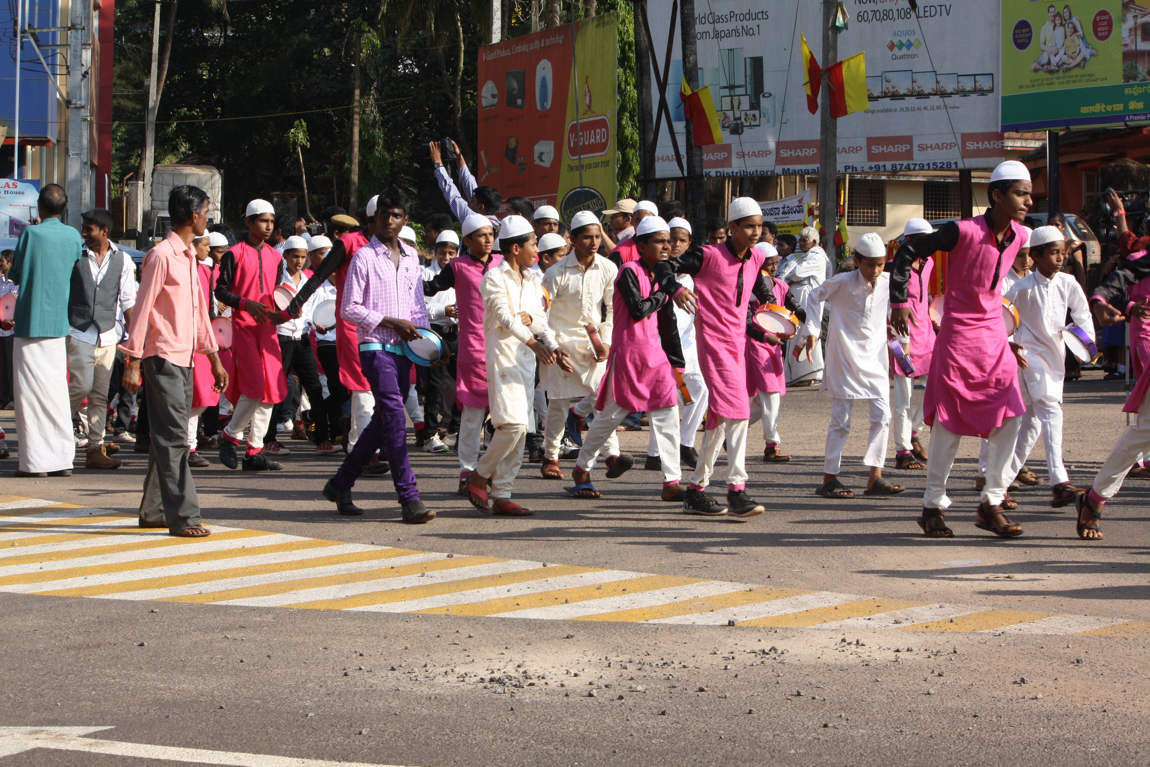 Moharam Kunitha, a kind of folk performance from Karnataka, India ಕನ್ನಡ: ಕರ್ನಾಟಕದ ಜಾನಪದ ಕಲೆ ಮೊಹರಂ ಕುಣಿತ